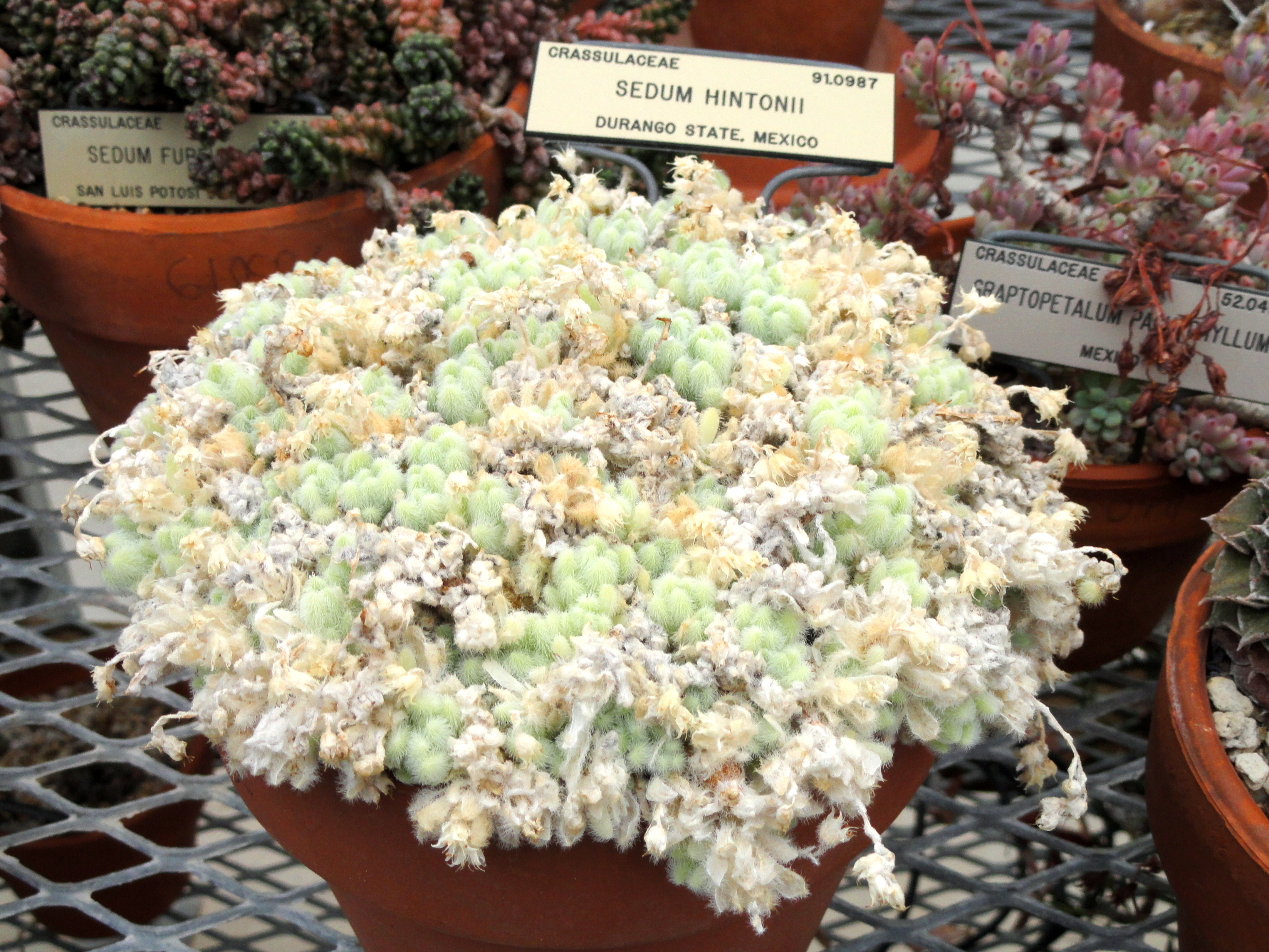 Sedum hintonii specimen in the University of California Botanical Garden, Berkeley, California, USA.